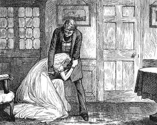 Miss Havisham and Pip, in an illustration for the Household Edition of Dickens's Great Expectations.